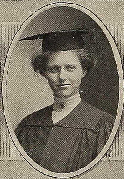 Vanderbilt University 1911 yeabook page